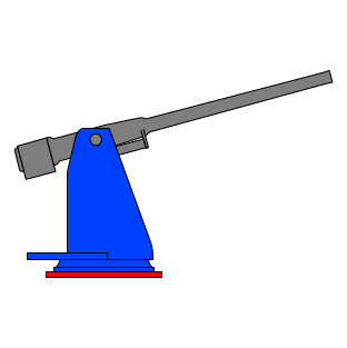 Schematic diagram of a Central Pivot gun mounting. Red = fixed mass, blue = rotating mass.